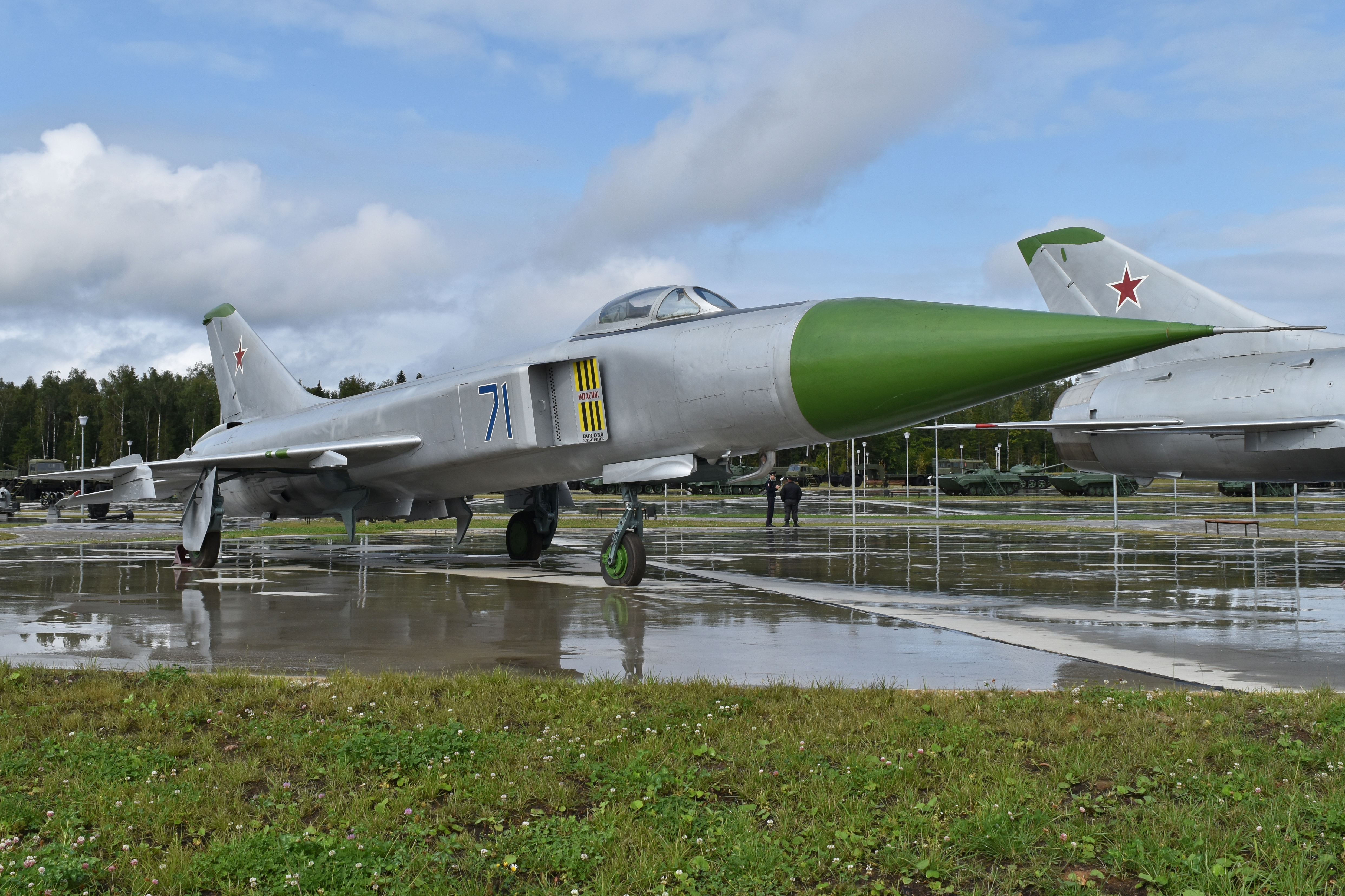 c/n 0831. NATO codename:- Flagon-A Previously on display at the Savasleyka base museum. It was refurbished at Kubinka (121ARZ) in early 2016 and now on display in Area 1 of the Patriot Museum Complex. Park Patriot, Kubinka, Moscow Oblast, Russia. 25th August 2017